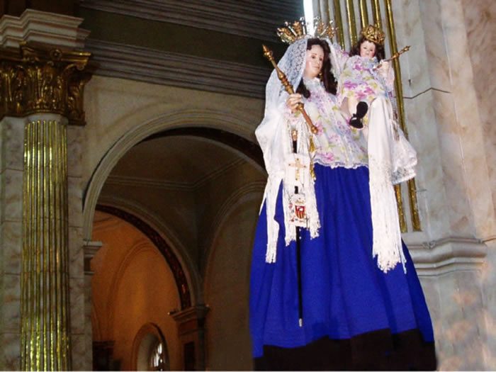 Merced Virgin vested with the Guaneña dress